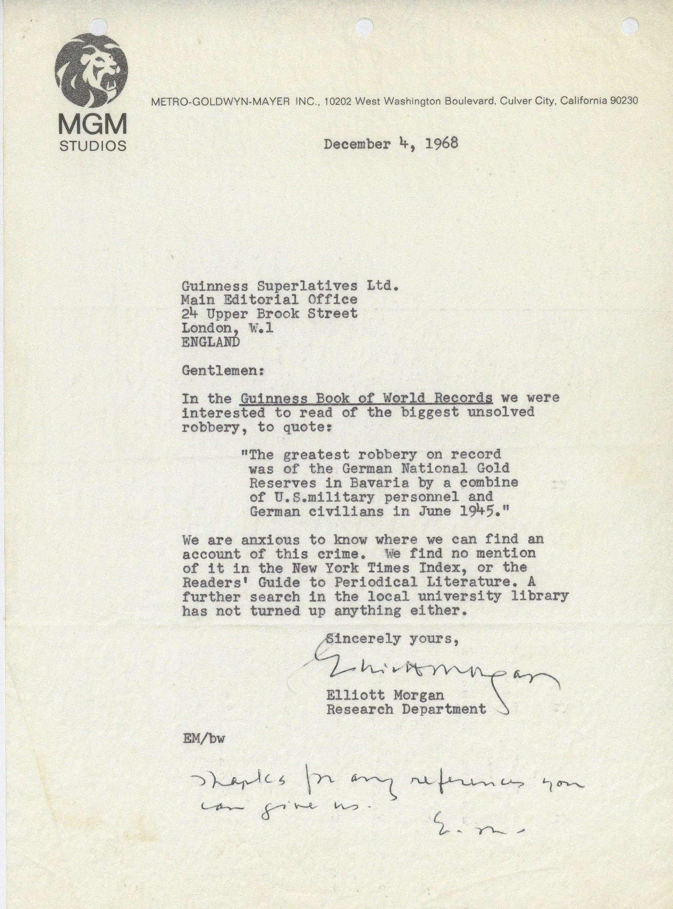 Elliott Morgan’s MGM Studios letter dated December 4, 1968 to the Guinness Book of World Records asking where they can find an account of the great robbery (German National Gold Reserves in Bavaria).